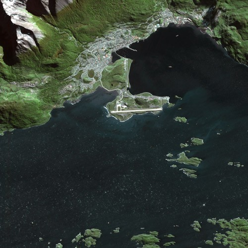 Ushuaia by SPOT Satellite